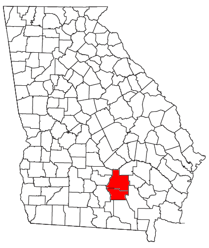 Locator map of the Douglas Micropolitan Statistical Area in the central part of the U.S. state of Georgia.